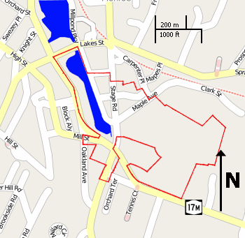 Map of Village of Monroe Historic District This map may be incomplete, and may contain errors. Don't rely solely on it for navigation.